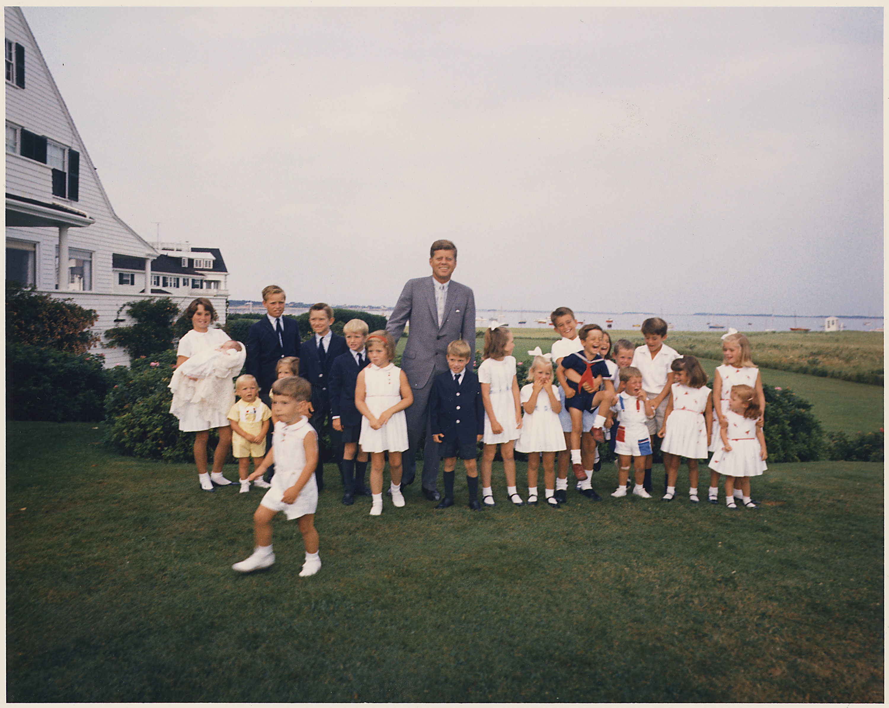 Scope and content: Hyannisport Weekend- President Kennedy with children. Kathleen Kennedy ( holding Christopher Kennedy ) Edward Kennedy Jr.,Joseph P. Kennedy II, Kara Kennedy, Robert F. Kennedy Jr., David Kennedy, Caroline Kennedy, President Kennedy, Michael Kennedy, Courtney Kennedy, Kerry Kennedy, Bobby Shriver ( holding Timothy Shriver ), Maria Shriver, Steve Smith Jr., Willie Smith, Christopher Lawford, Victoria Lawford, Sidney Lawford, Robin Lawford (in foreground- John F. Kennedy Jr.). Hyannisport, MA, Kennedy Compound